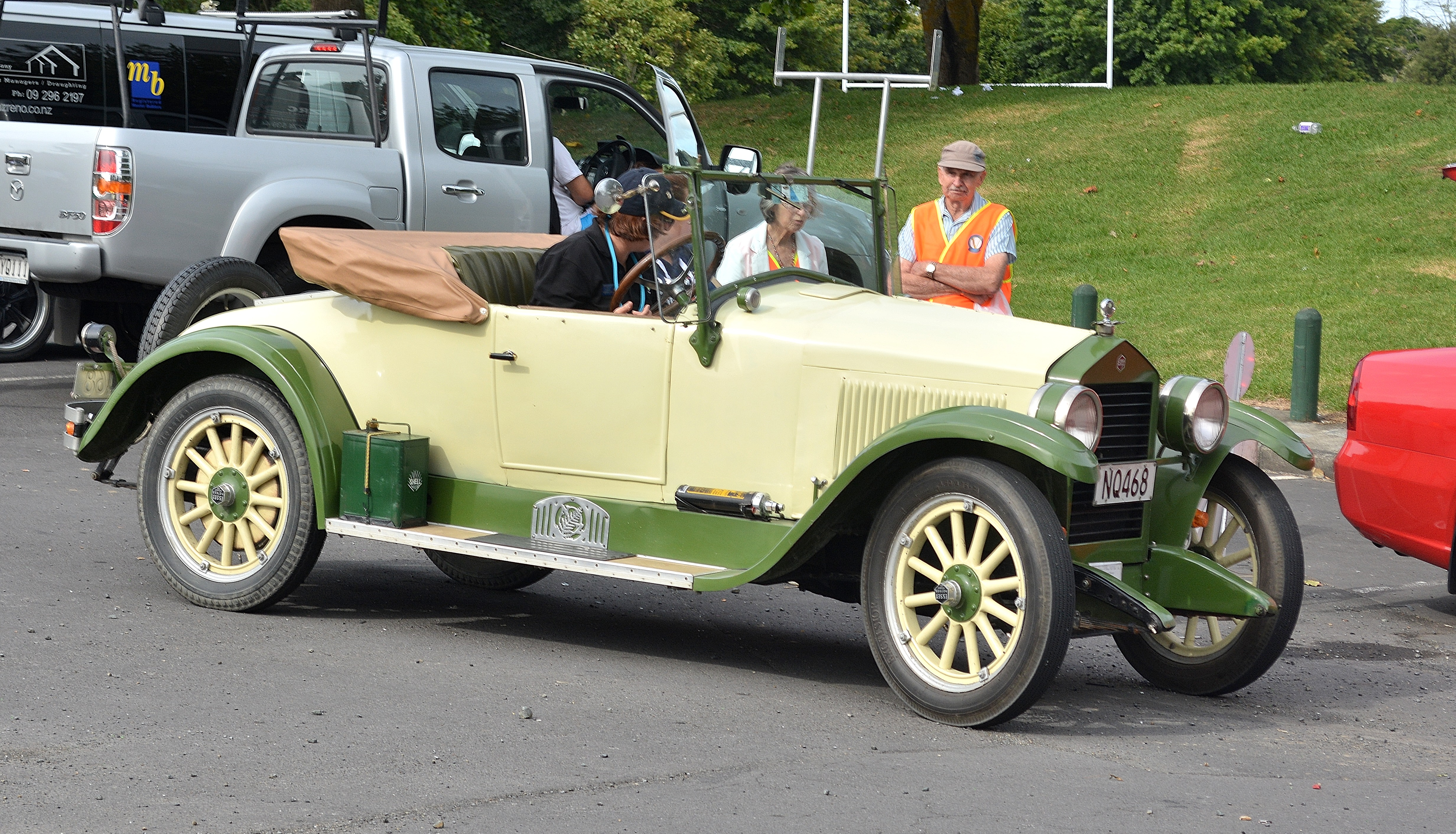 Papakura Vintage Car Rally,South Auckland.New Zealand